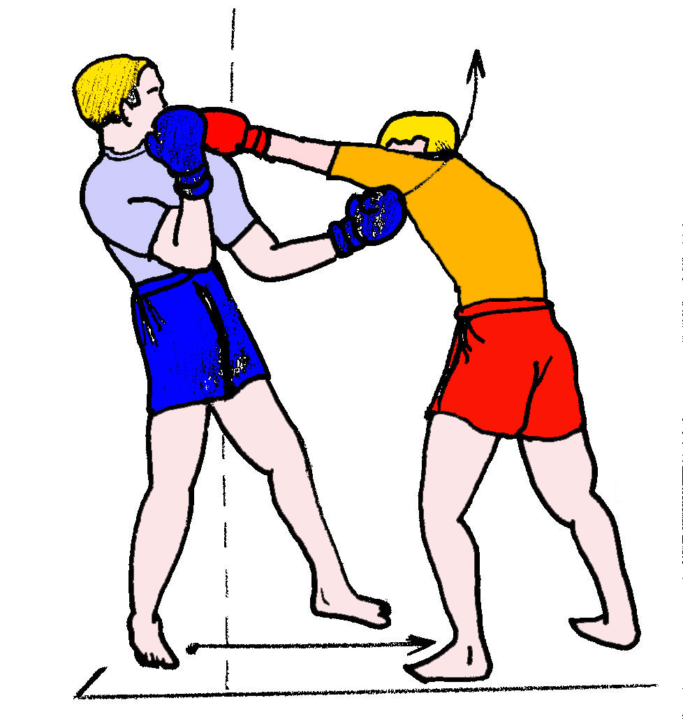 Uppercut in counterpunch